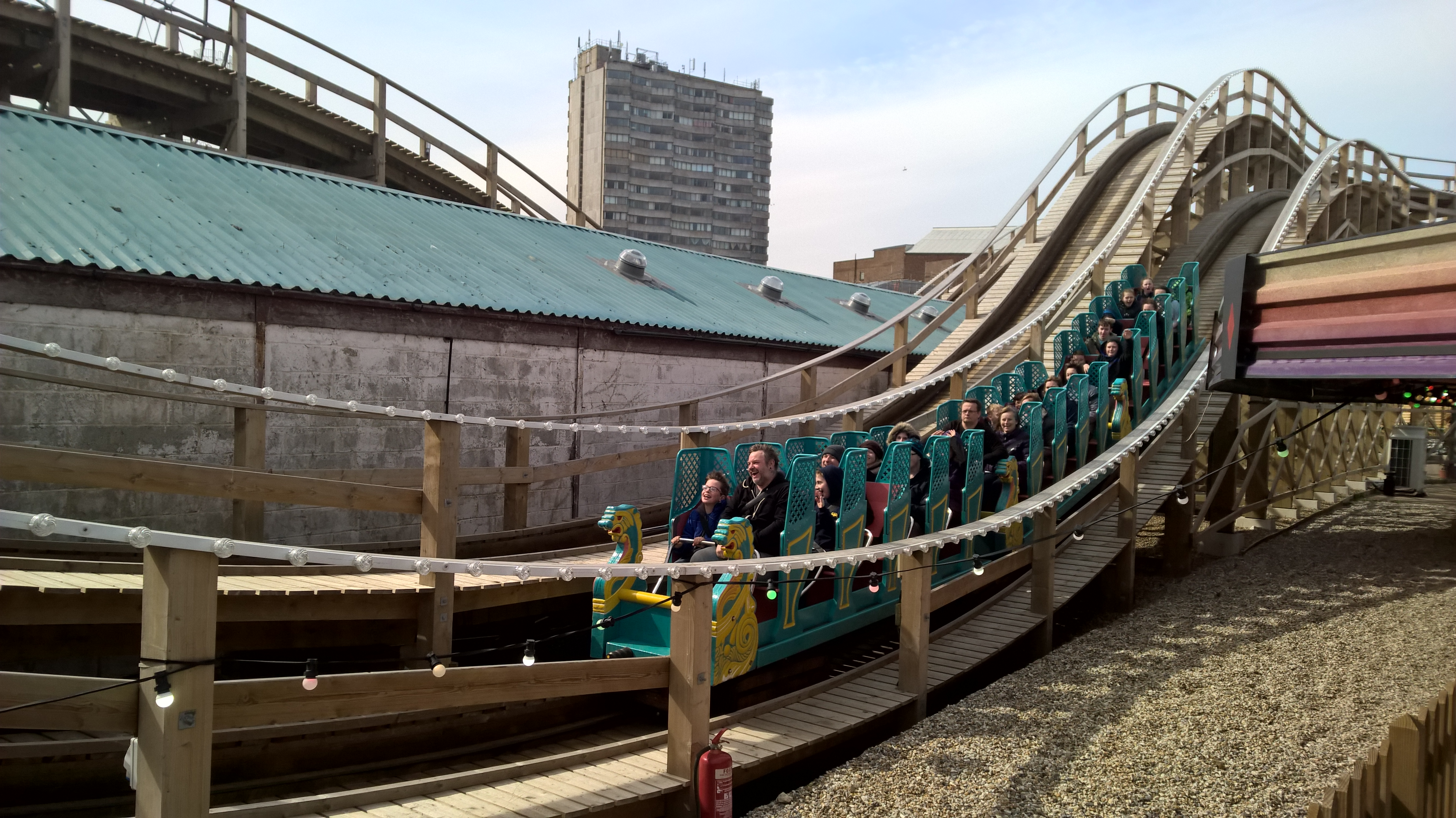 The Scenic Railway roller coaster at Dreamland Margate running in April 2016